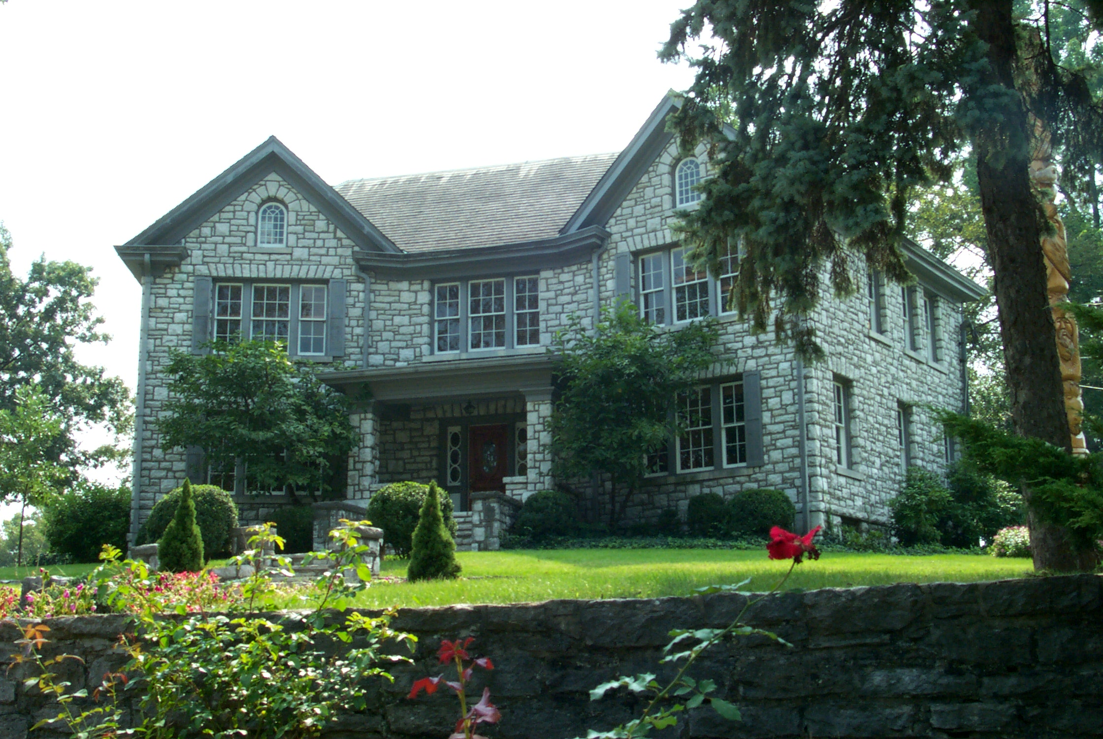 The master distiller's residence at the Buffalo Trace Distillery in Frankfort, USA.